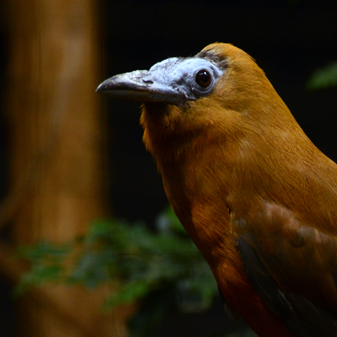 Capuchinbird ( Perissocephalus tricolor ) in the Parc des Oiseaux, in Villars-les-Dombes.